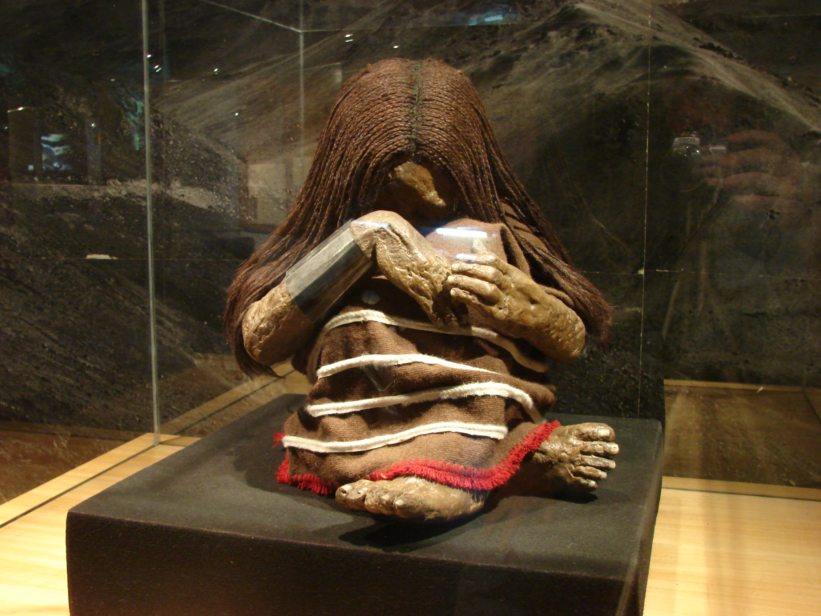 A photo of the replica of the Plomo Mummy on display at the Museo Nacional de Historia Natural in Santiago, Chile. Photo taken 2009-May-24.